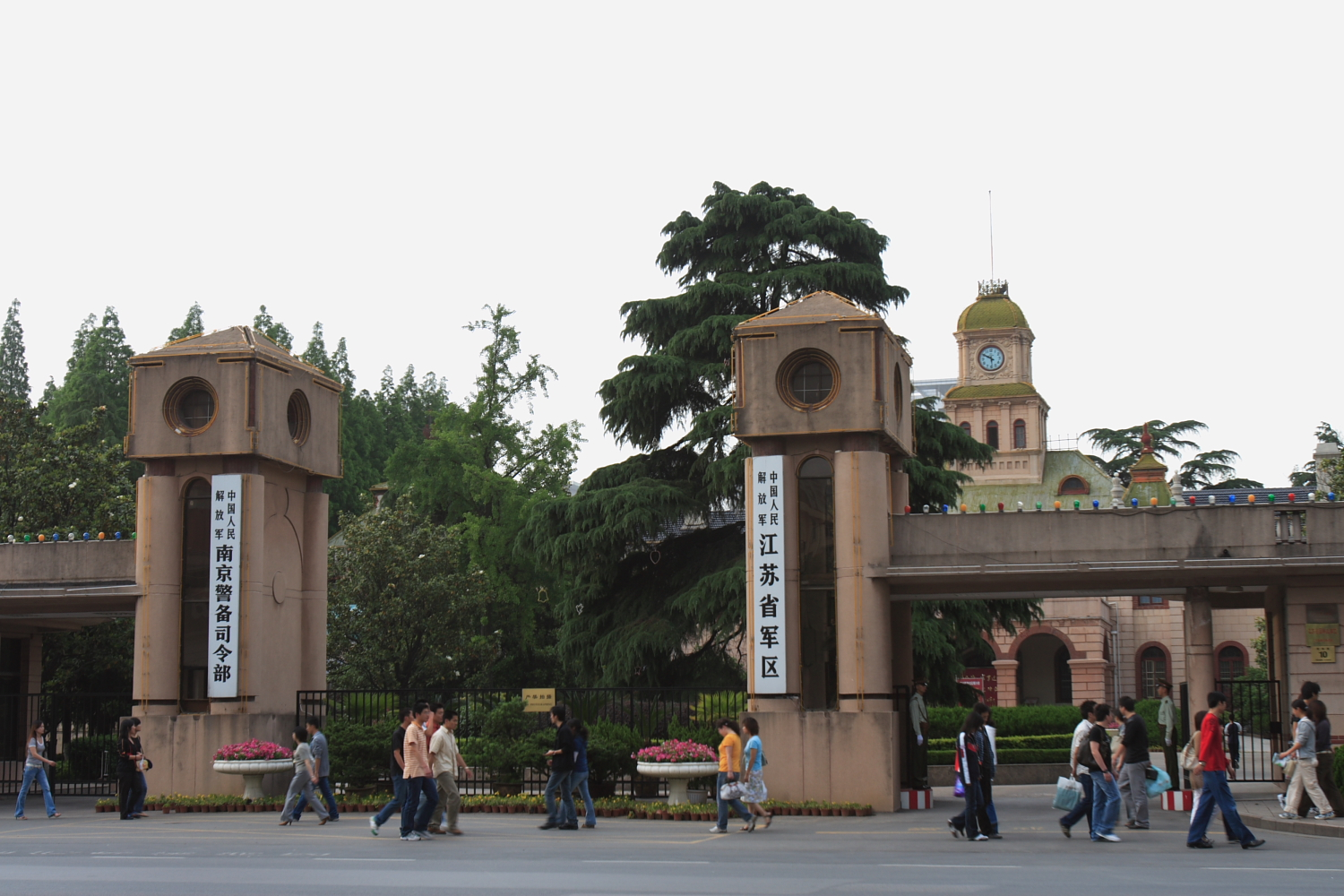 Senate of POC, historical sites